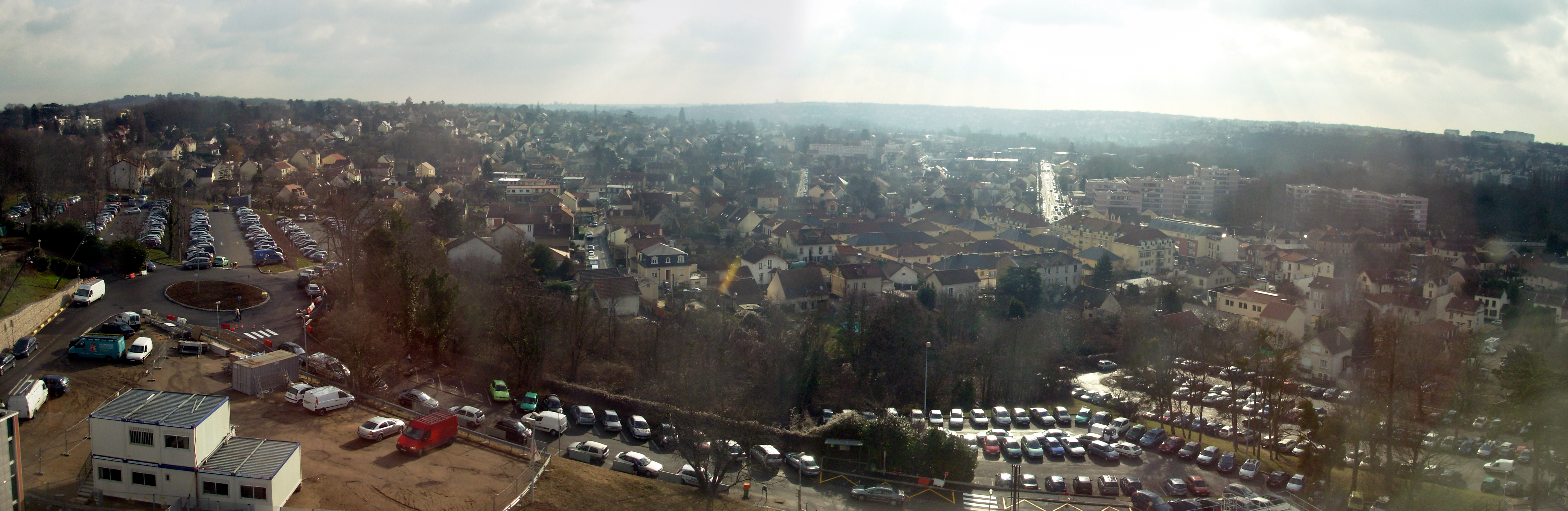 Crosne : panoramic view of the east side